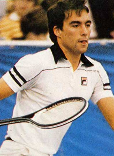 John Sadri during a tennis match.